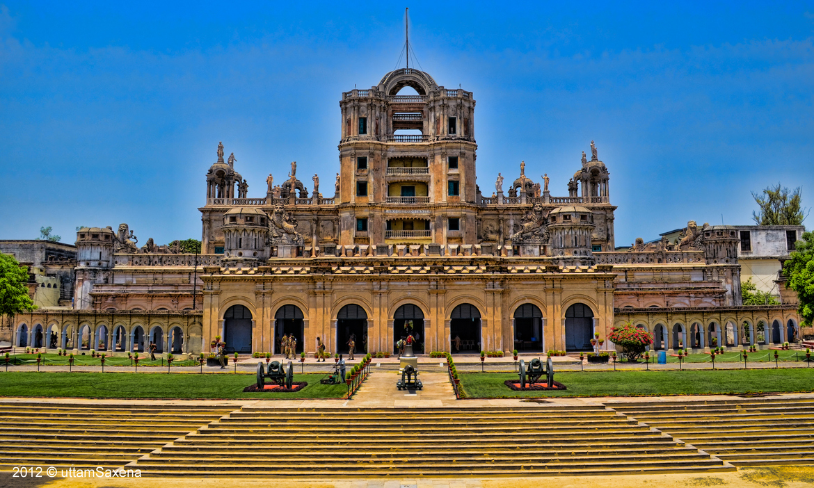 La Martiniere School, one of the oldest and most reputed schools of India